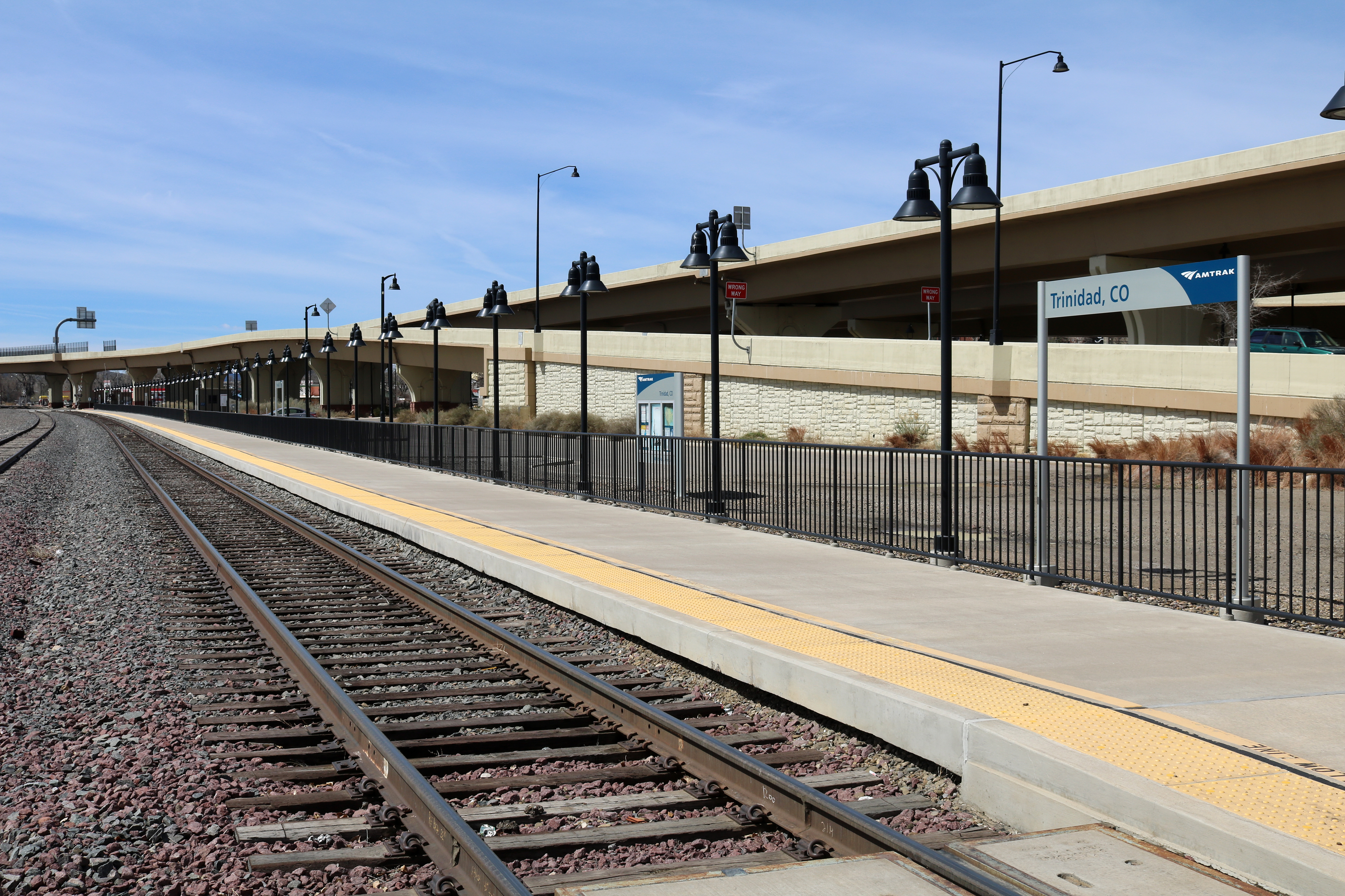 The stop for Amtrak's Southwest Chief in Trinidad, Colorado. It is a single side platform, and there is no accompanying station or structure. It is located near where Commercial Street crosses the Purgatoire River in Trinidad.